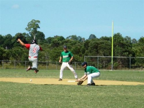 Carlos Prichard of the Redcliffe Padres avoids a runners interference from a batted ball by leaping over it. The defensive team is the Narangba Demons.